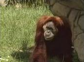 Nonja the orangutan, believed to be the world's oldest living orangutan, on june 14, 2006. She died at the Miami MetroZoo on December 30, 2007. She was 55.